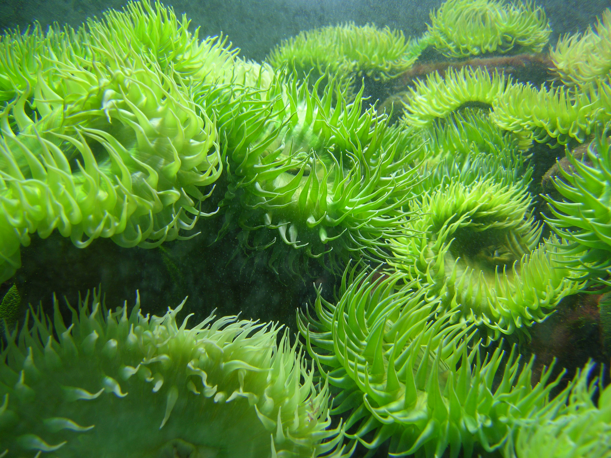 Giant green anemones in the Northern Waters gallery at the New England Aquarium. Taken by Max Lieberman.